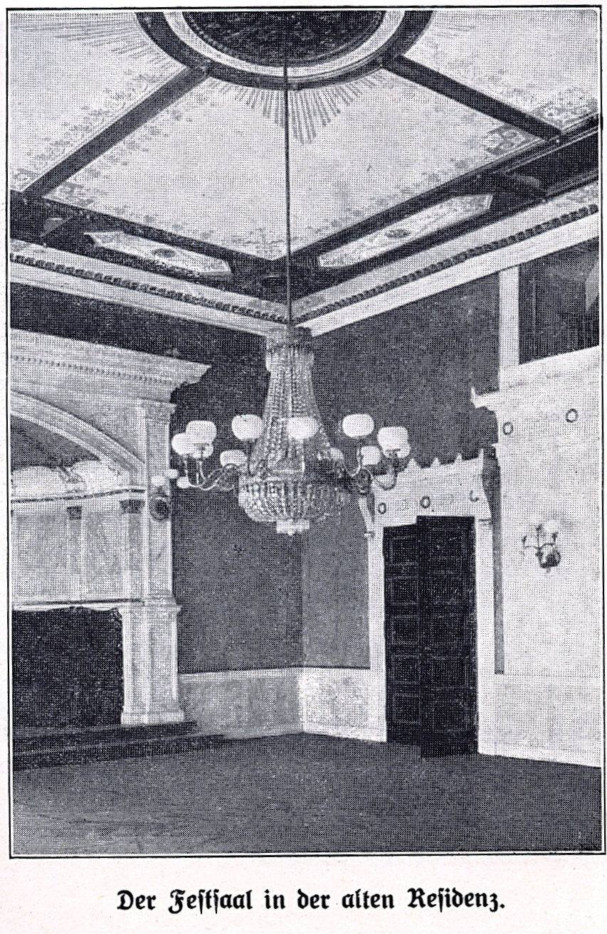 Statthalterpalais an der Mühlenstraße in Düsseldorf; frühklassizistisches Palais erbaut 1766 von Hofbaumeister Ignatius Kees als Sitz des kurfürstlichen Statthalters, "Der Festsaal in der alten Residenz".jpg